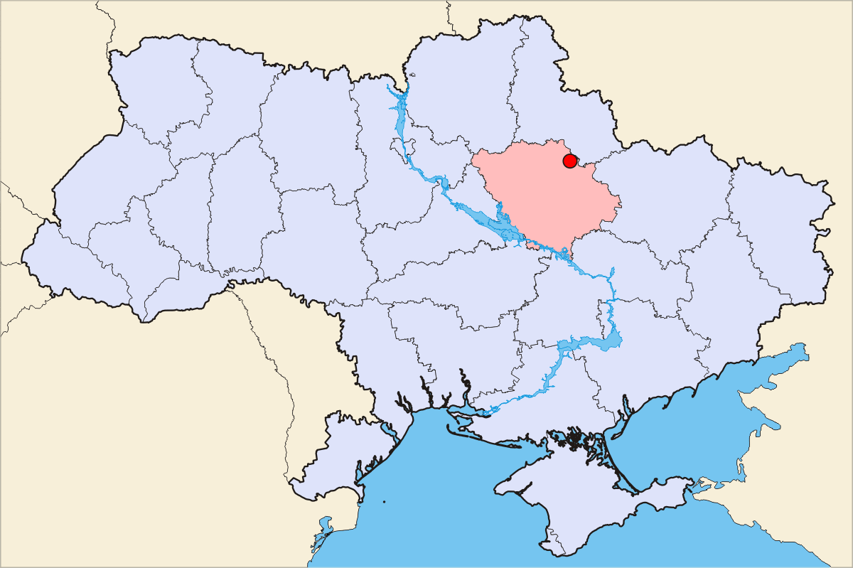 Description = Zinkiv geographical position Source = own work, Skluesener Date = 15.01.2006 Author = Skluesener Credits = Colours chosen according to a map of steschke